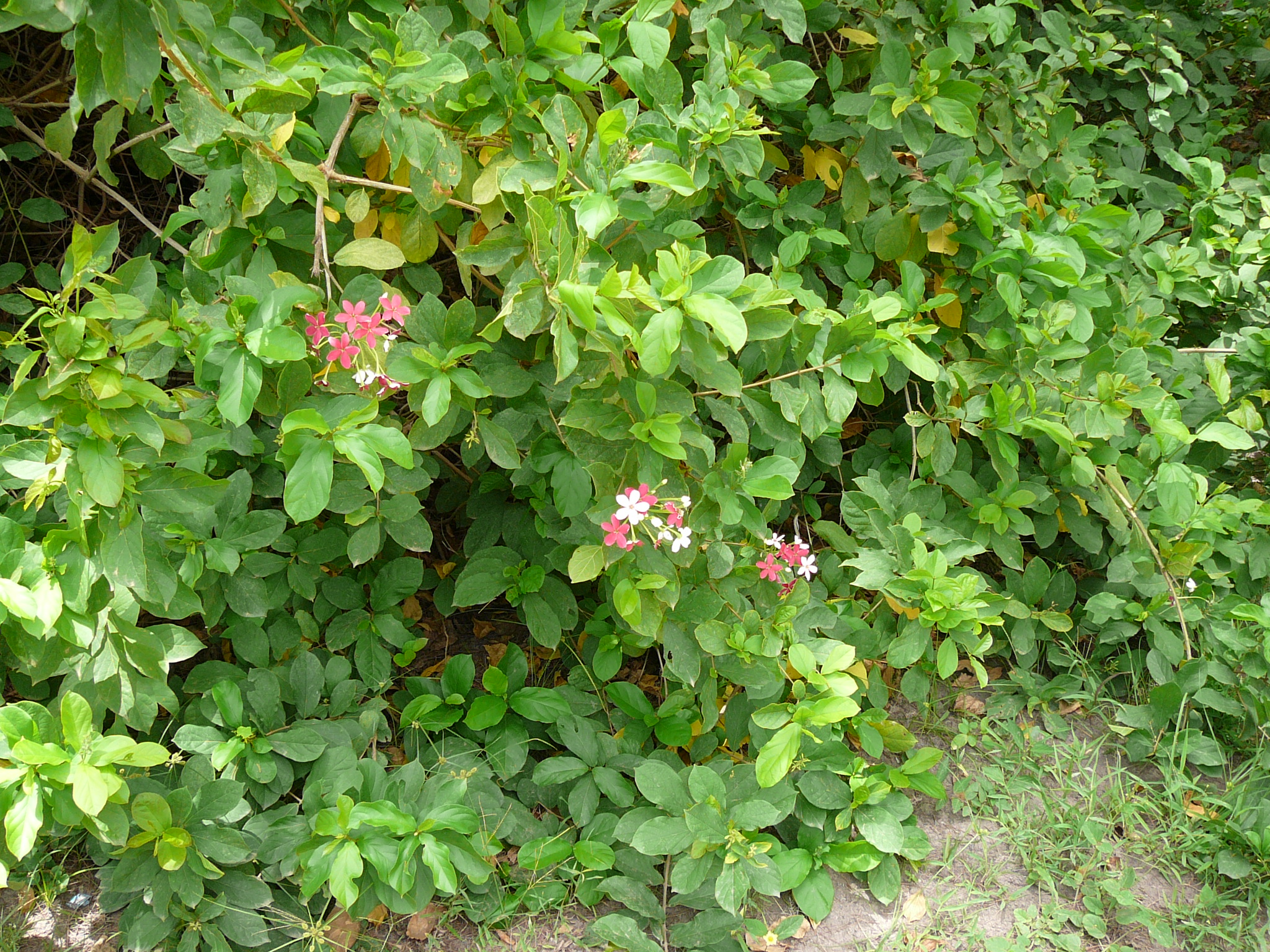 Rangoon creeper